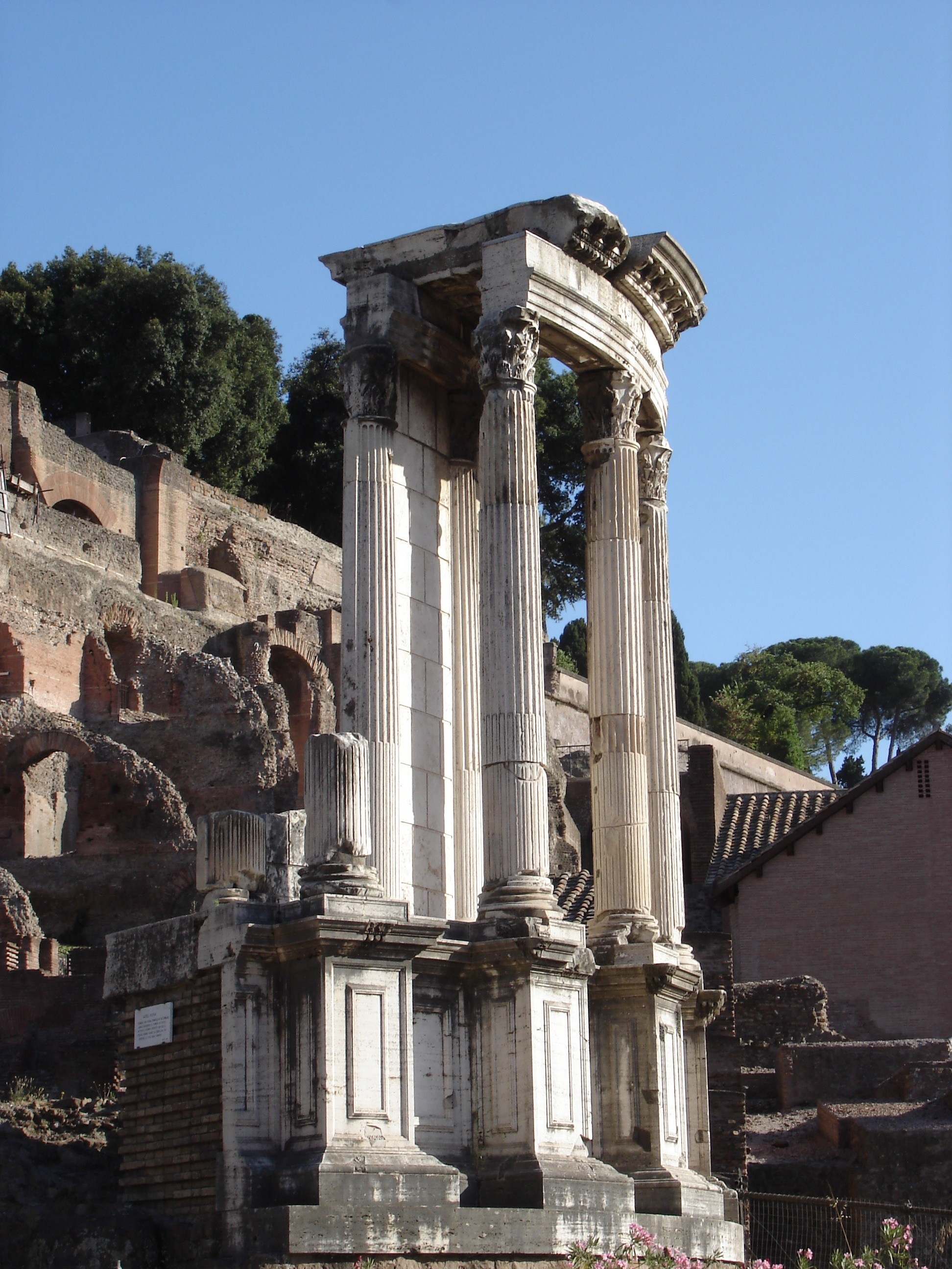 Rome in July.